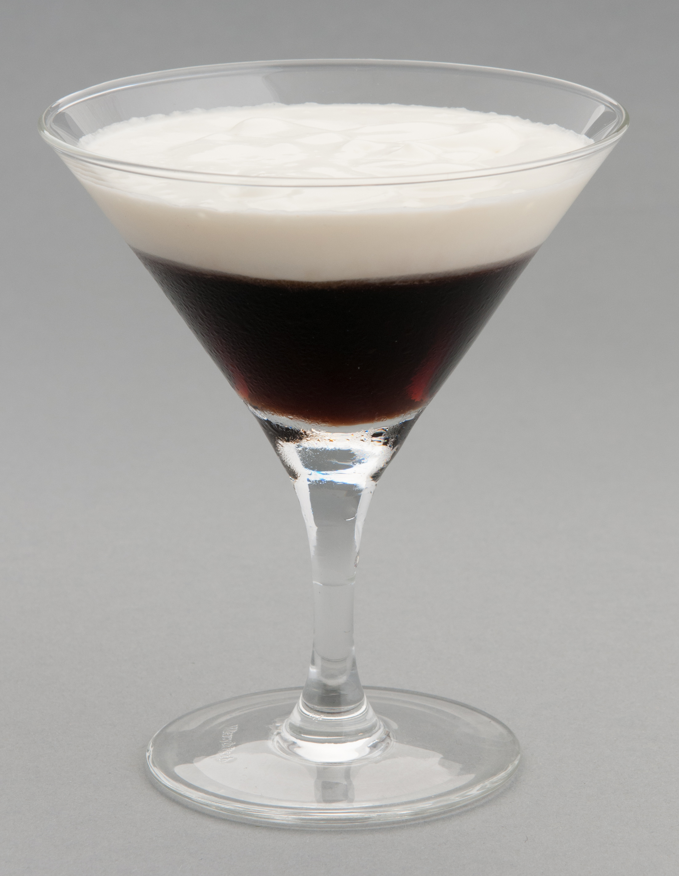 An unmixed White Russian cocktail